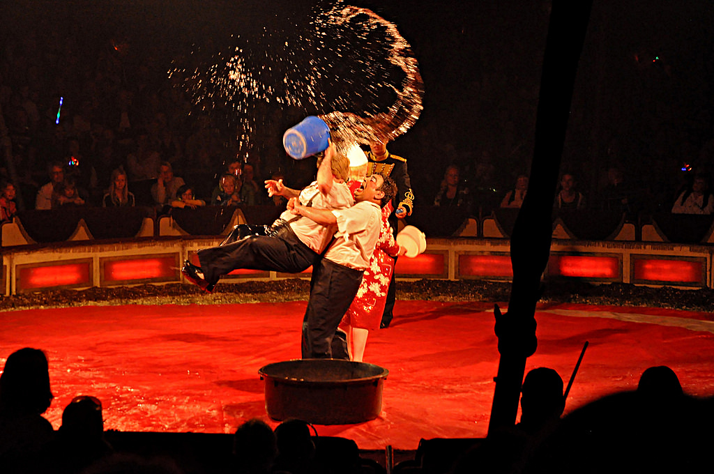 Clowns at the swedish Circus Brazil Jack at a show in Visby in Sweden.